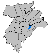 Map of Luxembourg City, Luxembourg, with the boundaries of the city's twenty-four quarters demarcated and the quarter of Pulvermuhl highlighted in blue.